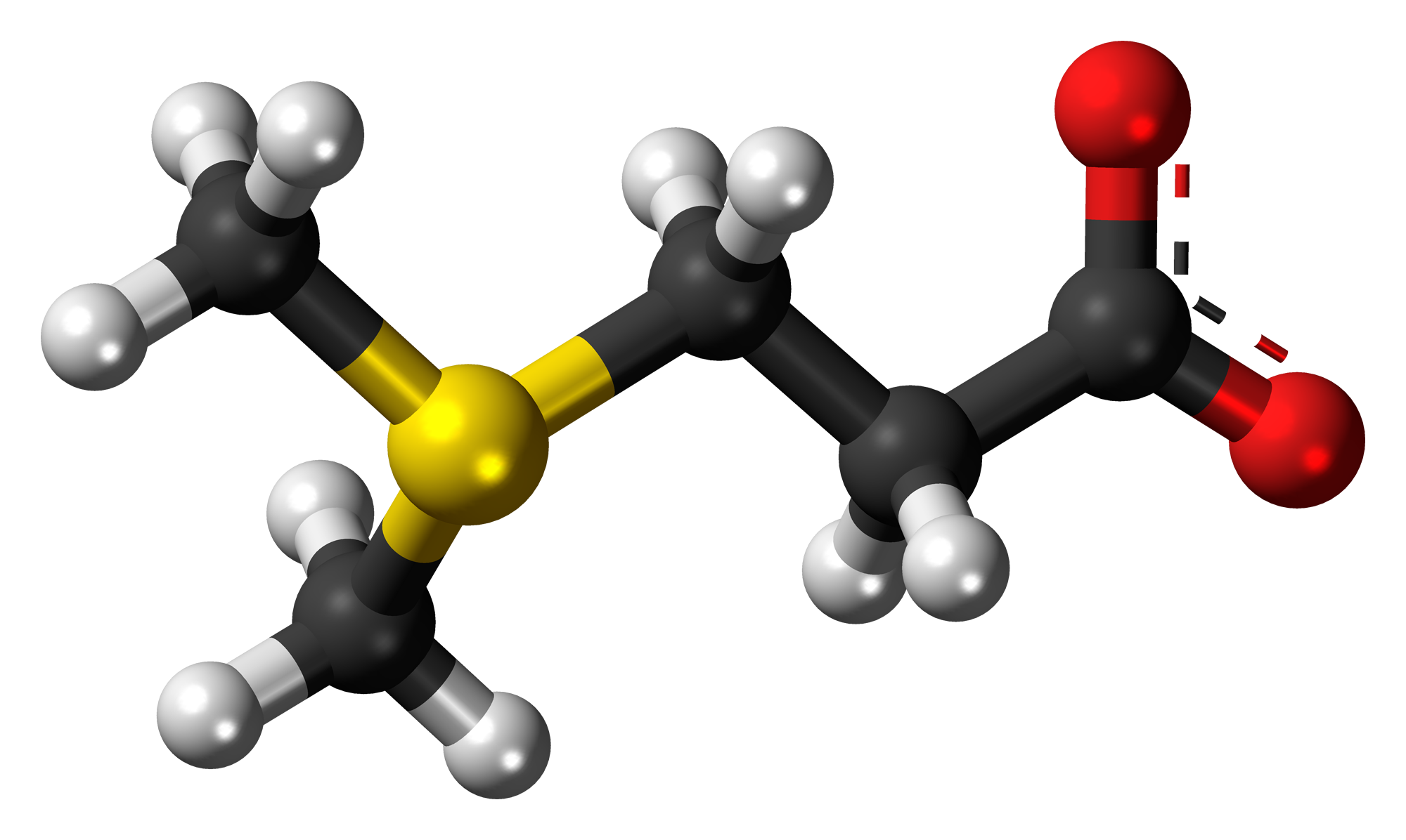 Ball-and-stick model of the dimethylsulfoniopropionate molecule, a metabolite found in phytoplankton and seaweed. Colour code: Carbon, C: black Hydrogen, H: white Oxygen, O: red Sulfur, S: yellow